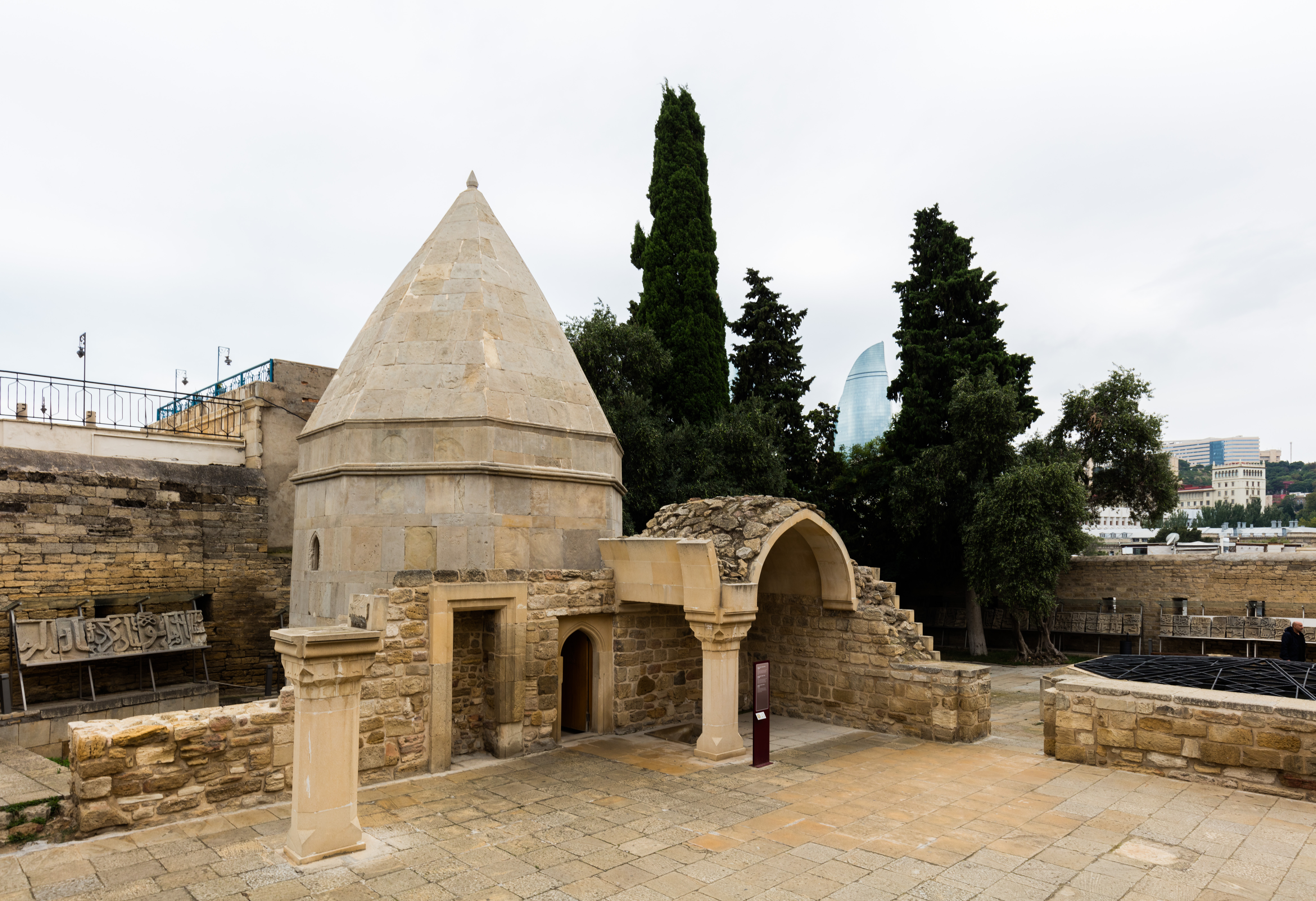 Palace of the Shirvanshahs, Baku, Azerbaijan